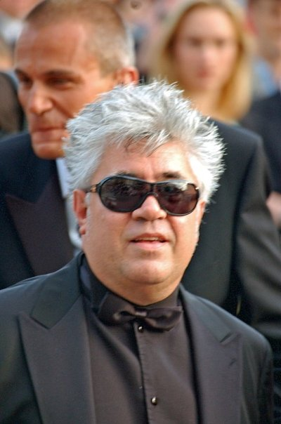 Pedro Almodovar at the Cannes film festival. Behind him, Laurent Weil